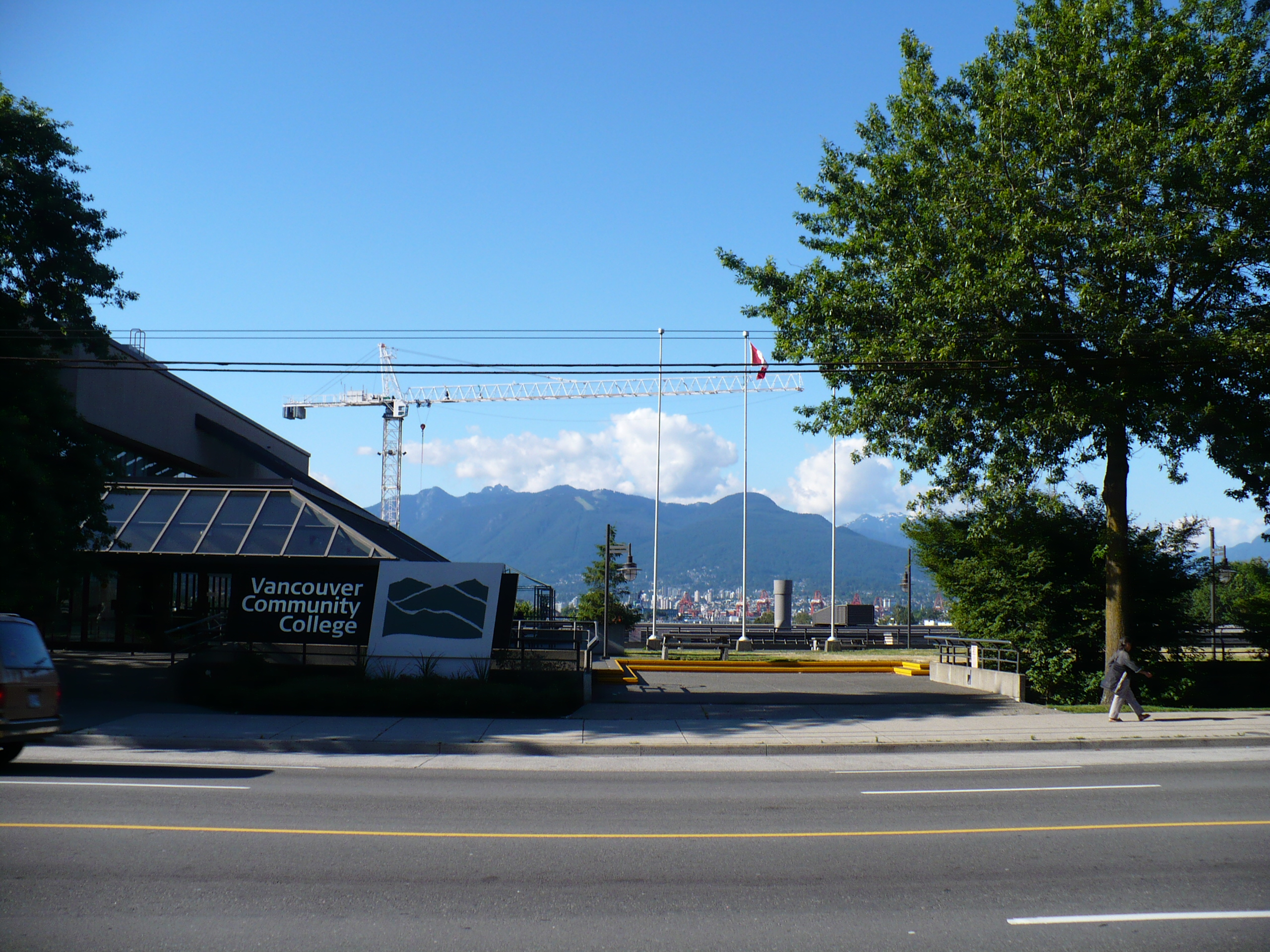 Exterior of Vancouver Community College